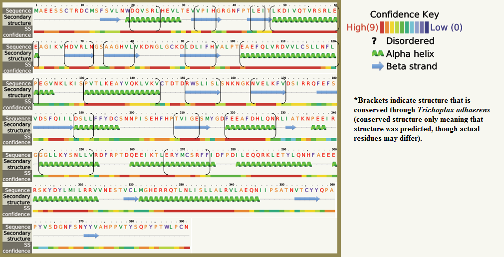 The image presented is my own work as far as editing and compiling. All predictions made and the full original image were generated by the PHYRE2 algorithm (Protein structure prediction on the web: A case study using the Phyre server. Kelley LA and Sternberg MJE Nature Protocols 4, 363-371 (2009).)